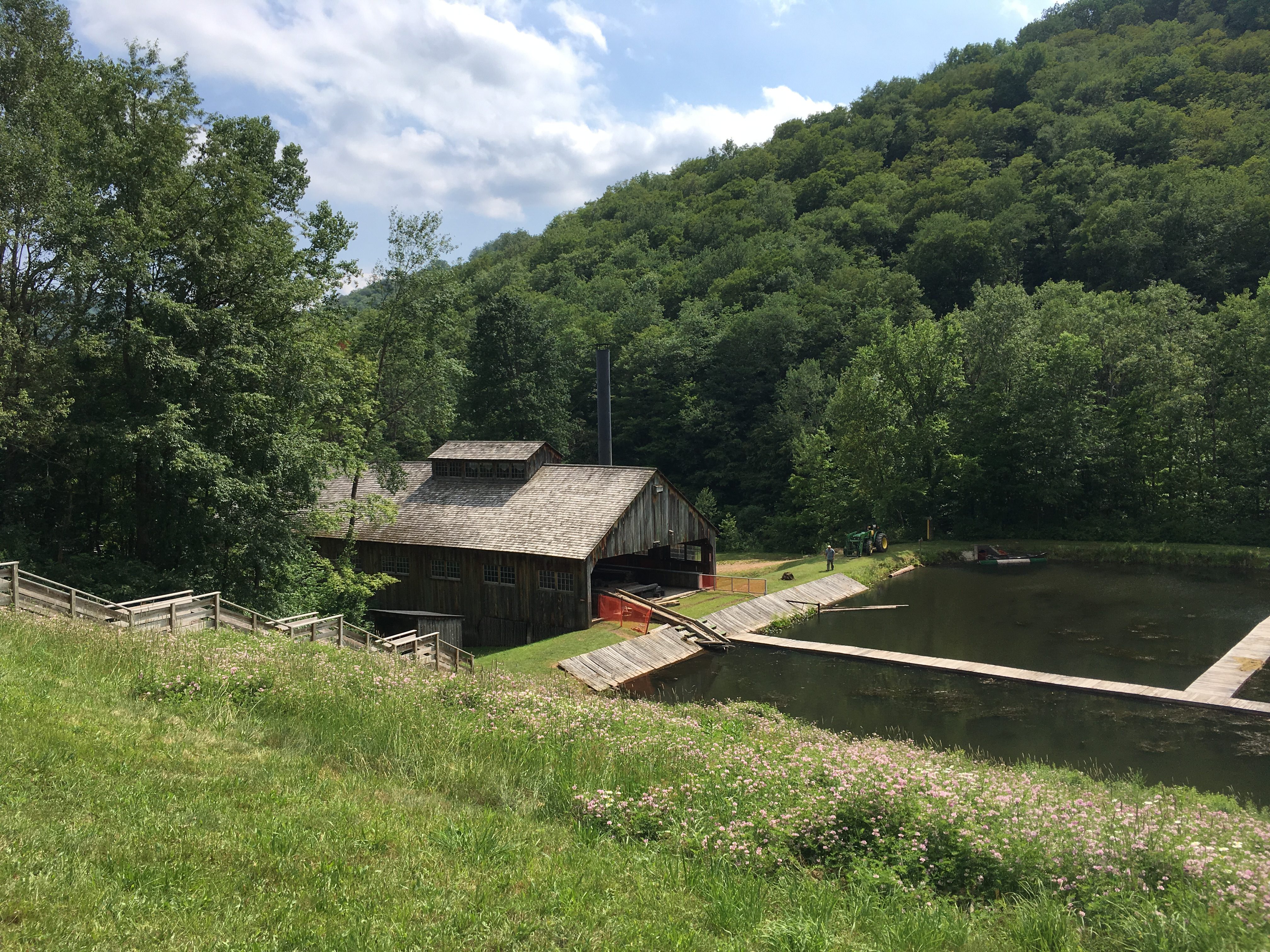 The saw mill and log pond at the Pennsylvania Lumber Museum in Ulysses Township, Pennsylvania